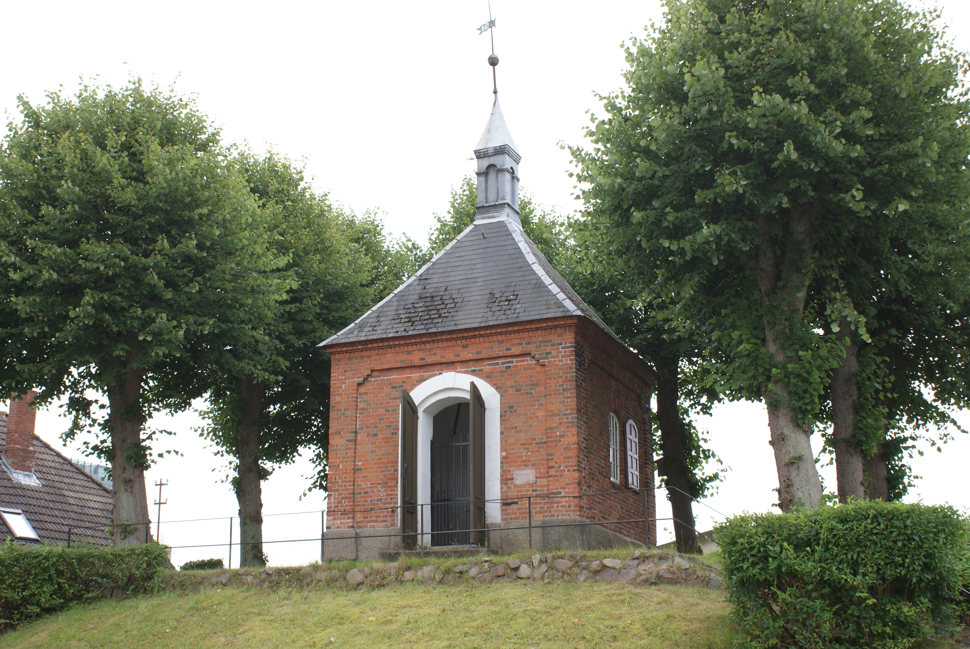 The Rantzau-Chappel at Bad Segeberg